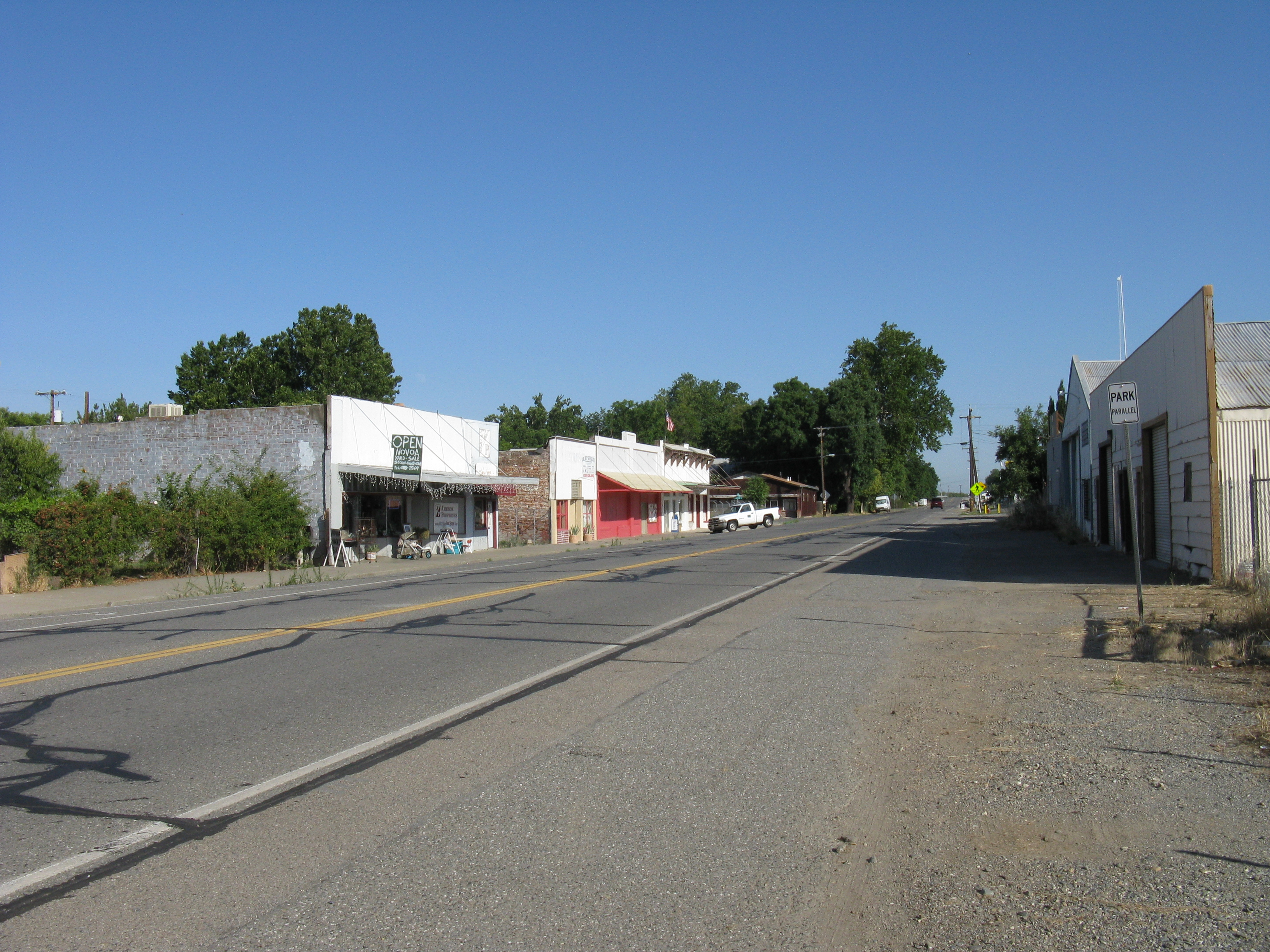 The small business district in the farming town of Gerber, in Tehama County, Northern California.